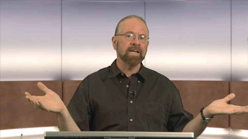 Screenshot from episode 1 of the pixel perfect showing host Bert Monroy